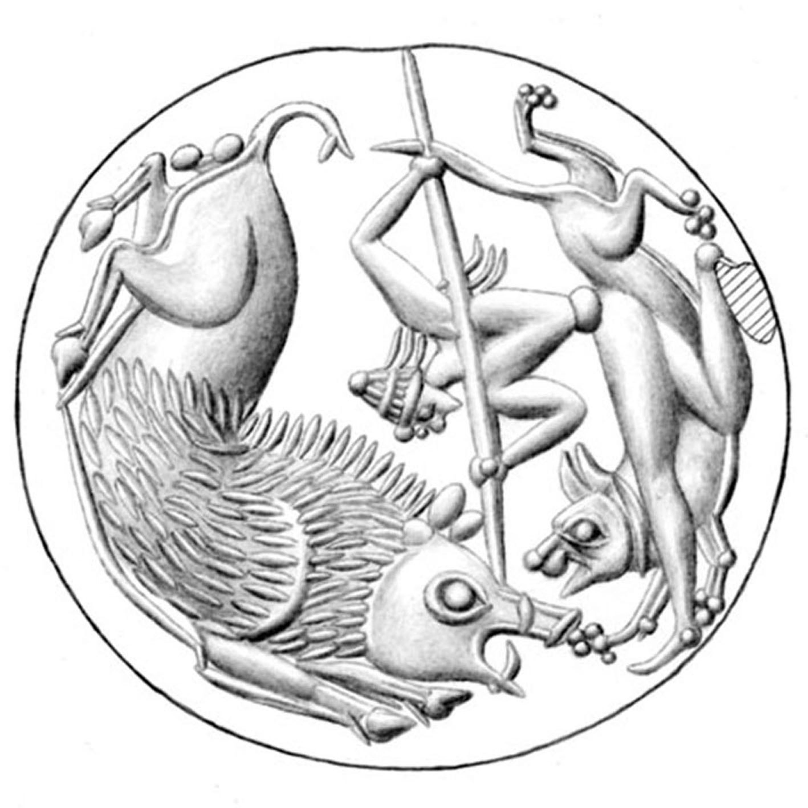 ancient minoan seal showing a pig (drawn)